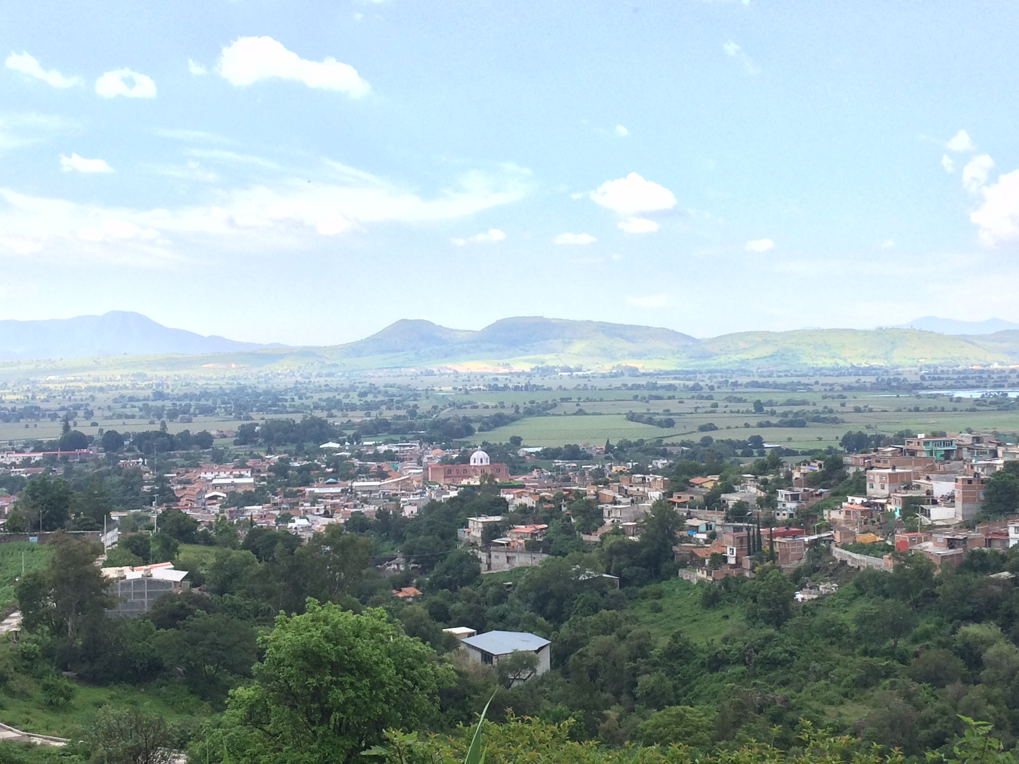 Fotografia tomada desde La Peña Rajada el 15 de Agosto 2016 Picture taken from La Peña Rajada on August 15, 2016 Copyights: P. Vargas